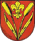 Coat of Arms of Wietmarschen First upload in de-wp: Faircamion (21:24, 25. Dez. 2005 - Bild:Wappen von Wietmarschen.jpg)